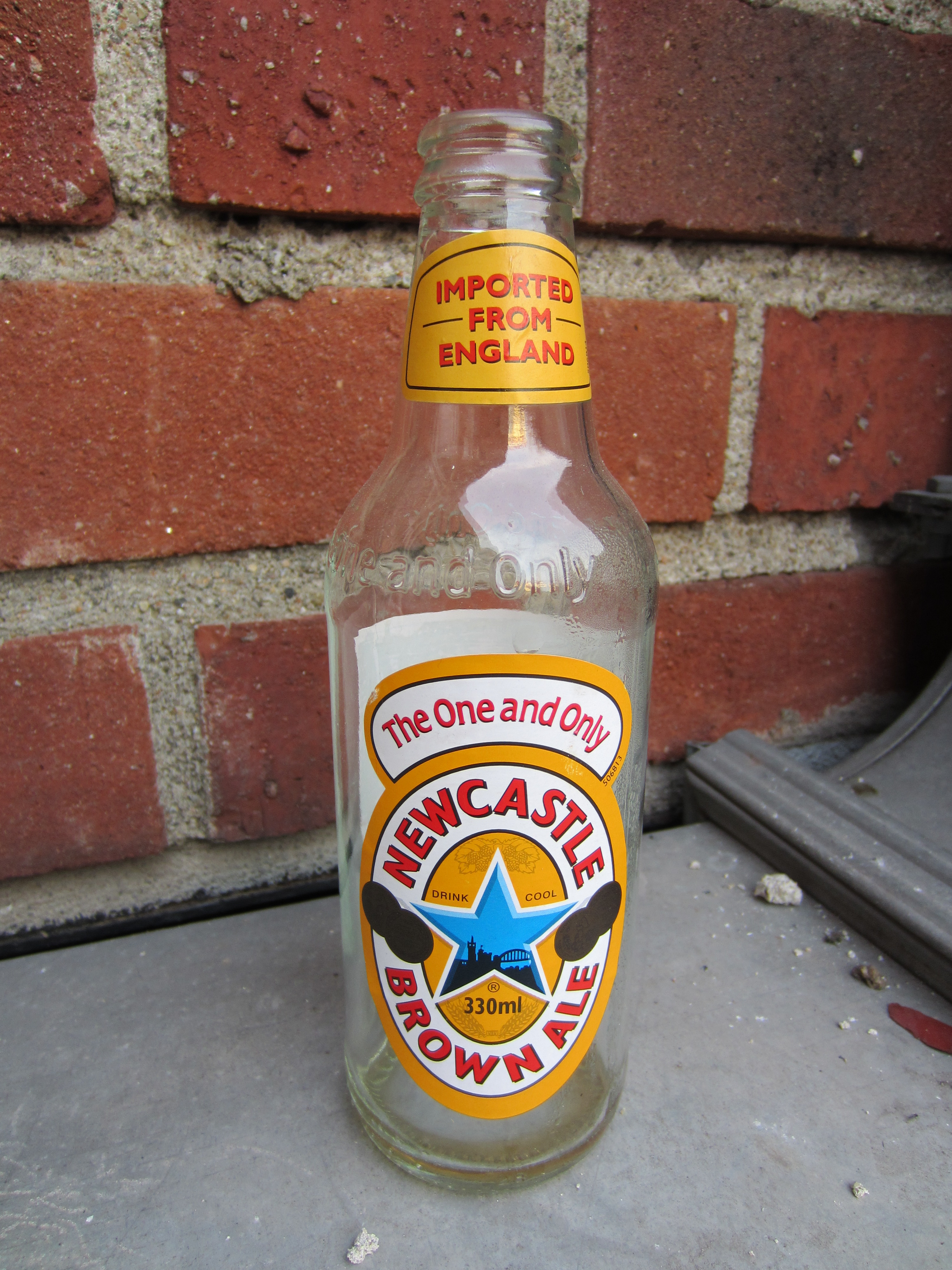 English beer "Newcastle Brown Ale"